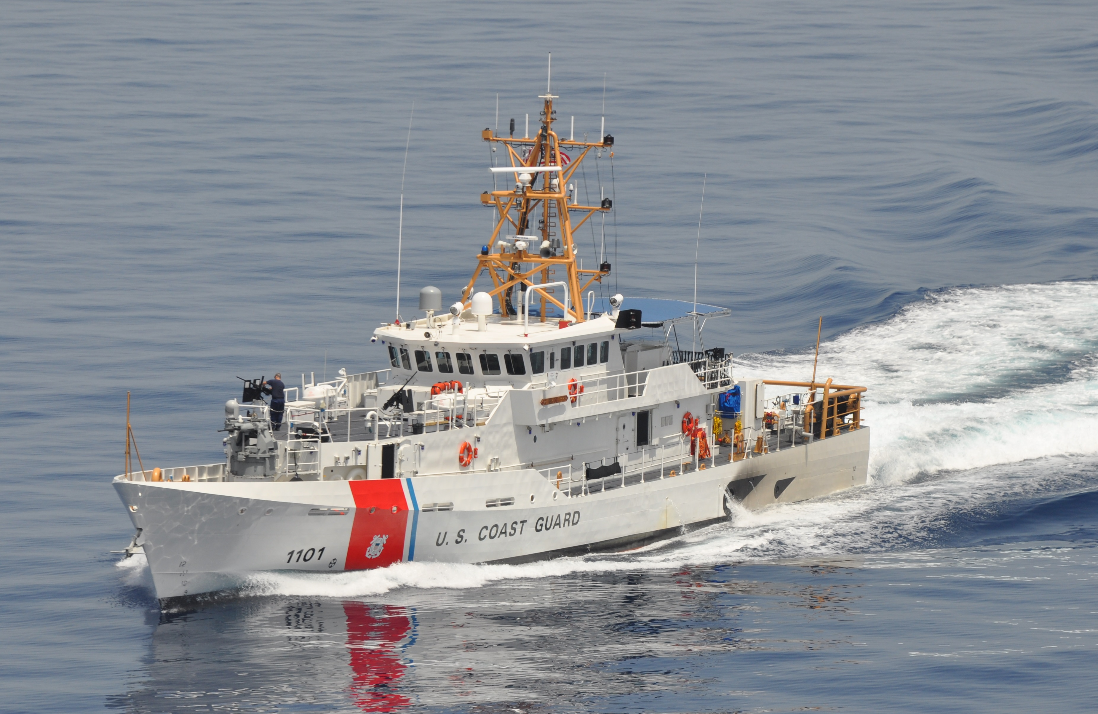 USCGC Bernard C. Webber (WPC-1101) underway offshore of Miami, Florida.